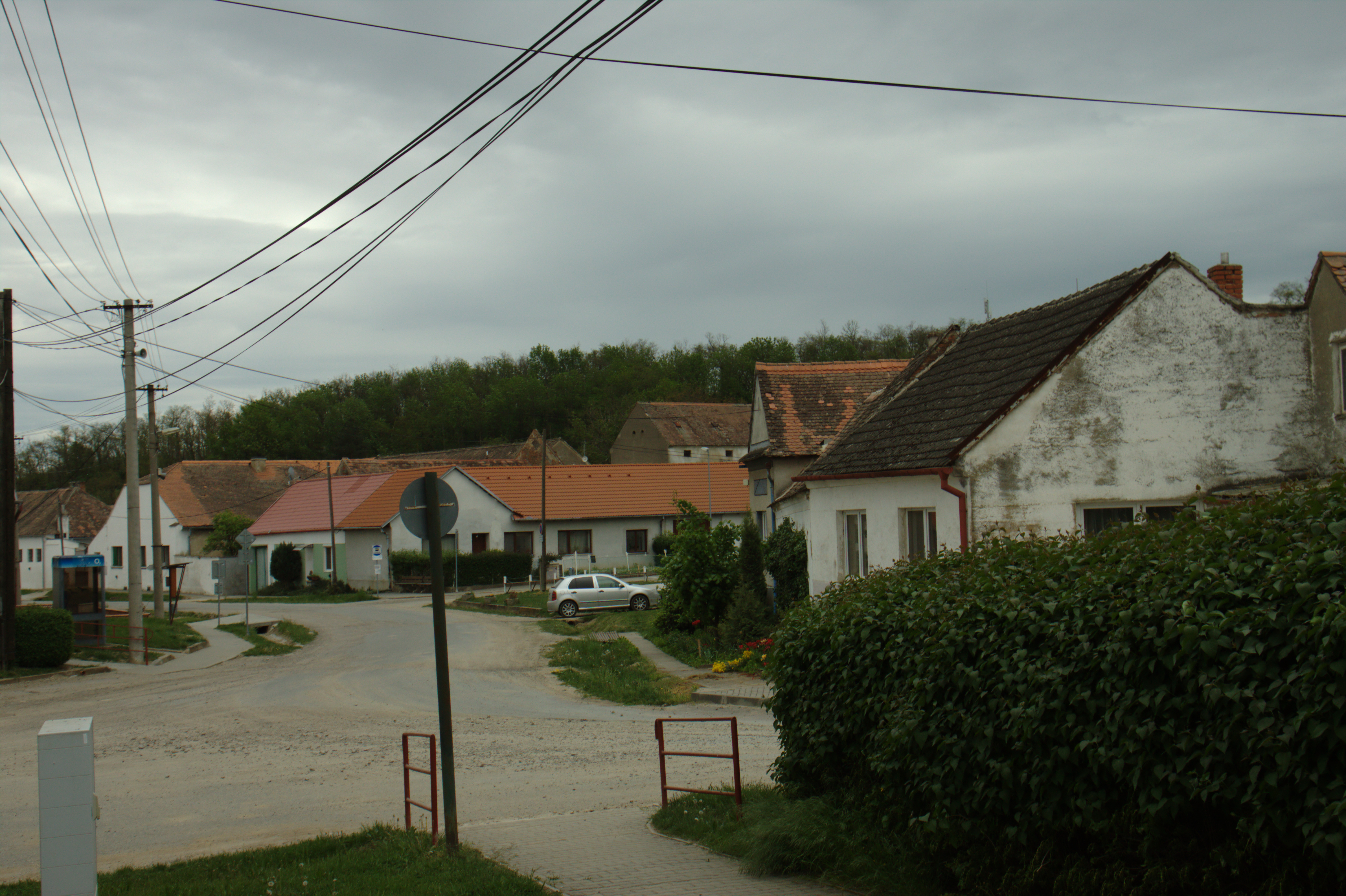 Various buildings in the village of Morašice, main road. South Moravian Region, CZ